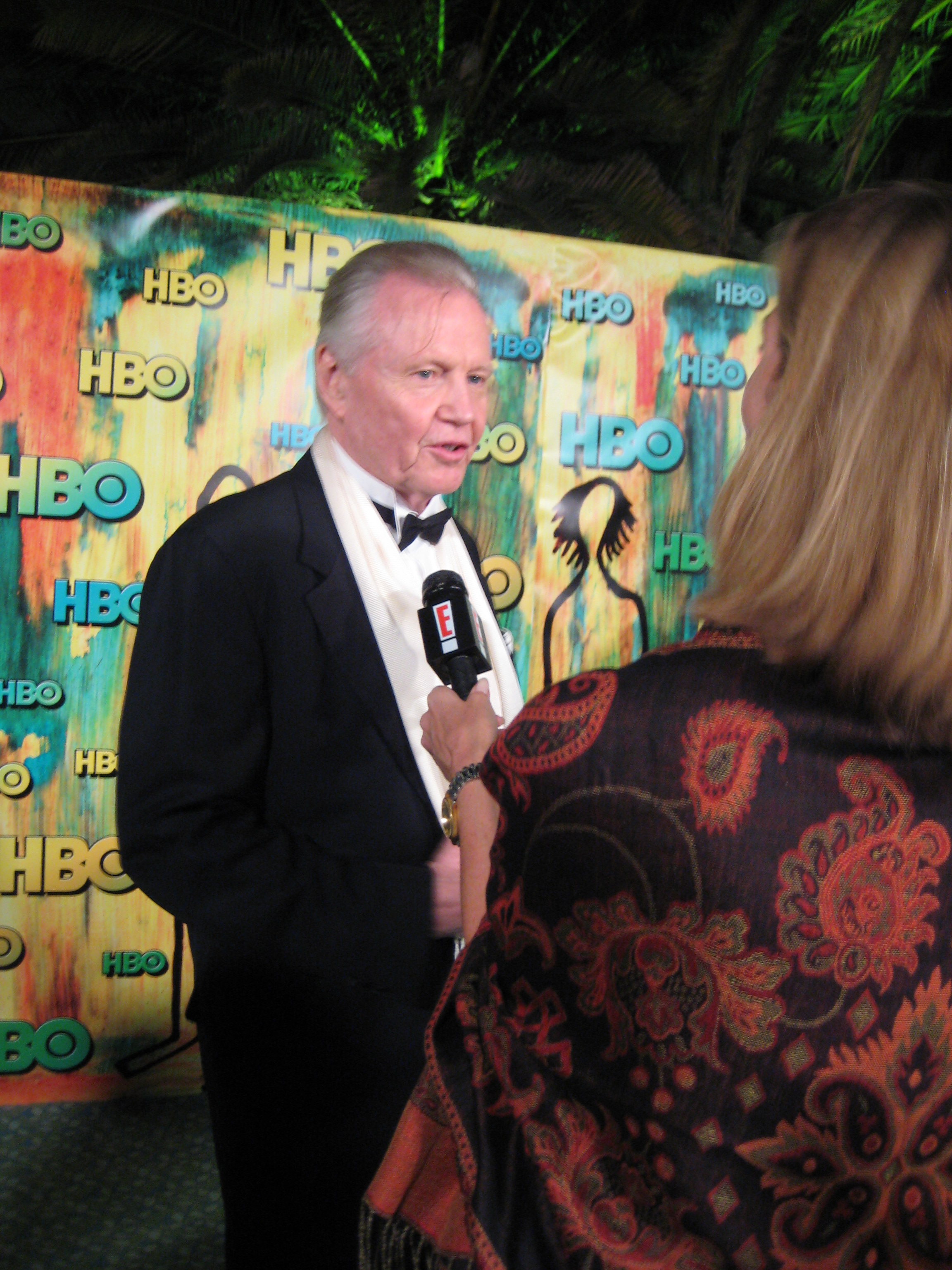 HBO Post-Emmys Party, Pacific Design Center, Sept. 21, 2008